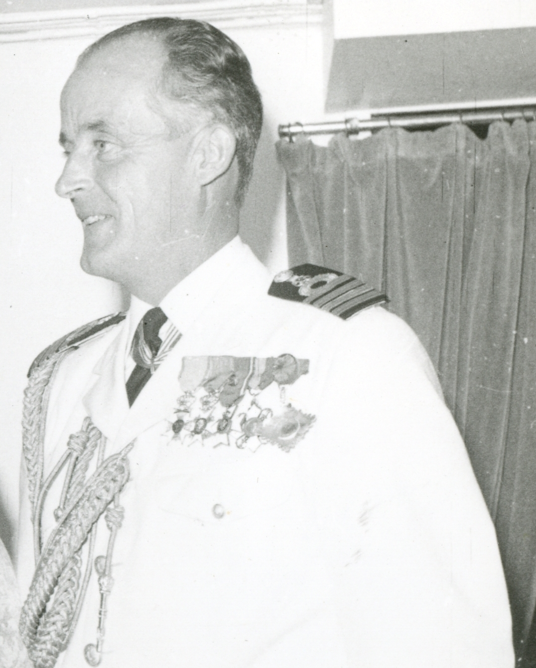 Captain of HSwMS Älvsnabben, Commander 1st Class (Kommendörkapten 1. graden) Lennart Lindgren.